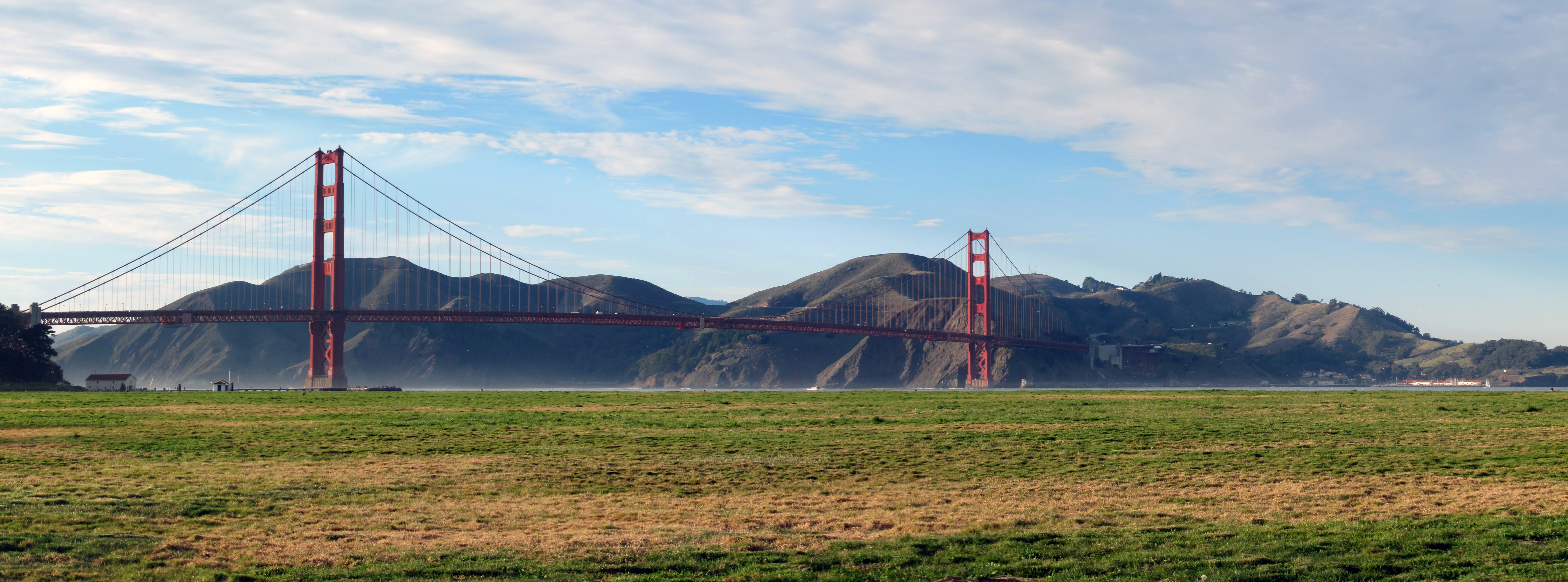 A segmented panorama of Crissy Field with the Golden Gate Bridge and the Marin Headlands seen in the background. The original images were taken on February 9, 2012. The large building on the far left is the Crissy Field Warming Hut Cafe and Bookstore (Presidio Building 983), the smaller building visible to the right of the Cafe is part of the Gulf of the Farallones National Marine Sanctuary Headquarters located at the Presidio's former Coast Guard Lifesaving Station in use from 1890 to 1990. Torpedo Wharf can be seen extending from the Warming Hut Cafe behind the small building at the end of the Lifesaving Station's pier.